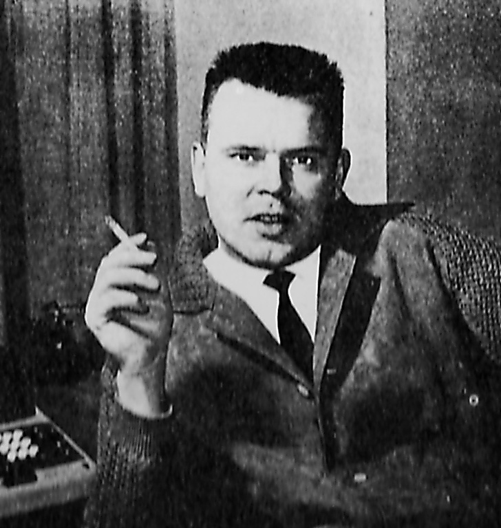 Olli Lyytikäinen, Finnish magazine publisher, managing director of Kustannusliike Apulehti (now A-lehdet Oy) in 1959